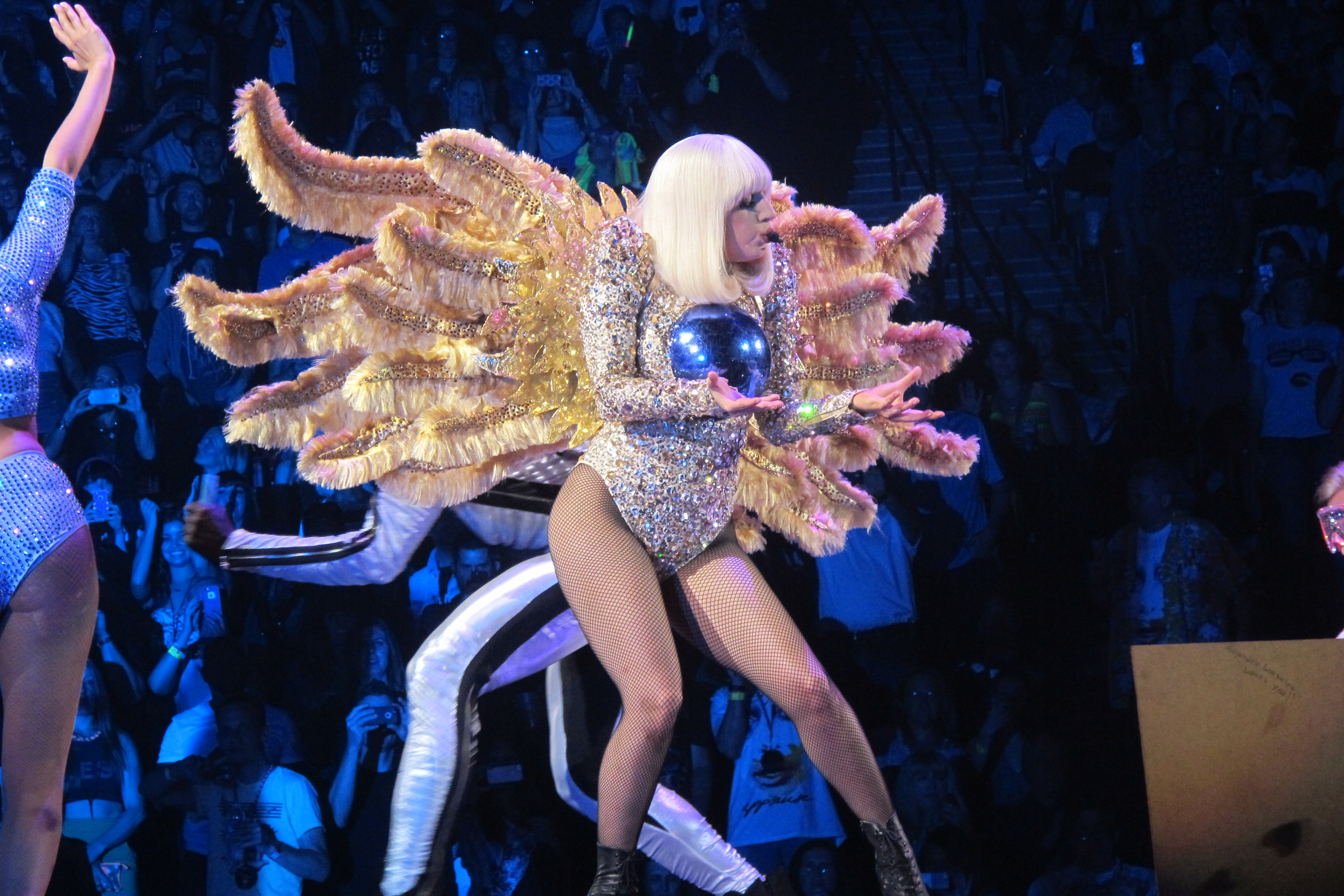 IMG_8157 Lady Gaga performing at ArtRave: The Artpop Ball of San Diego